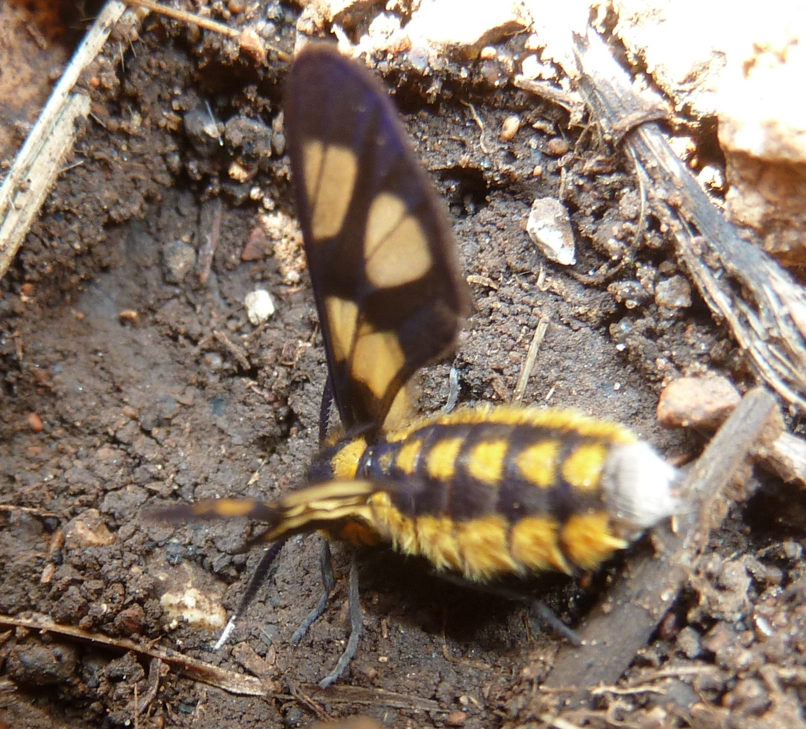 Yellow-sleeved maiden in Groenkloof Nature Reserve